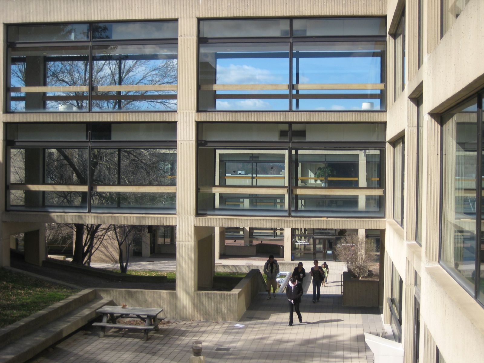 Bridges at Science Library, Science II, Science III.